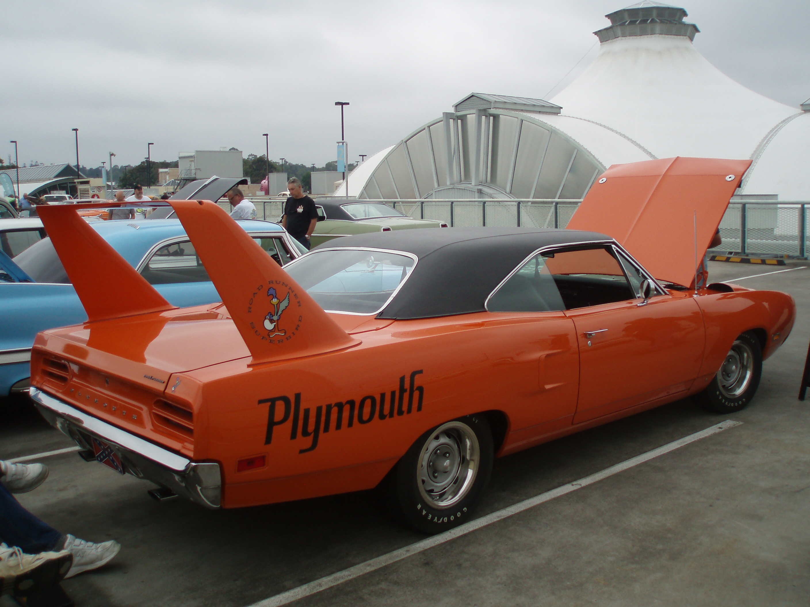 1970 Plymouth Road Runner Superbird coupe. Taken at the 2011 New South Wales All American Day, held at Castle Towers Shopping Centre, Castle Hill, Sydney.